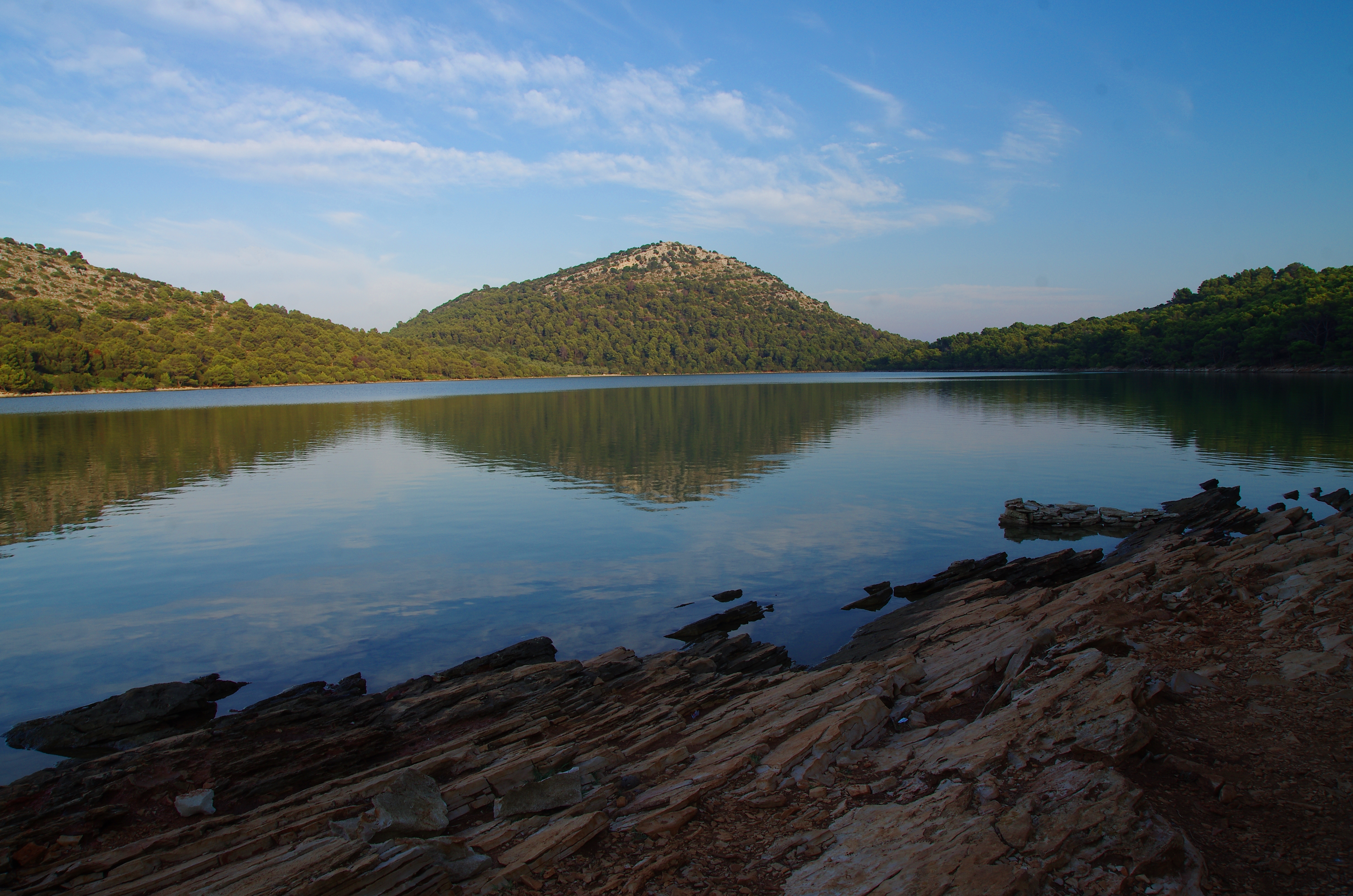 Salt lake Dugi Otok at sunset located in Croatia